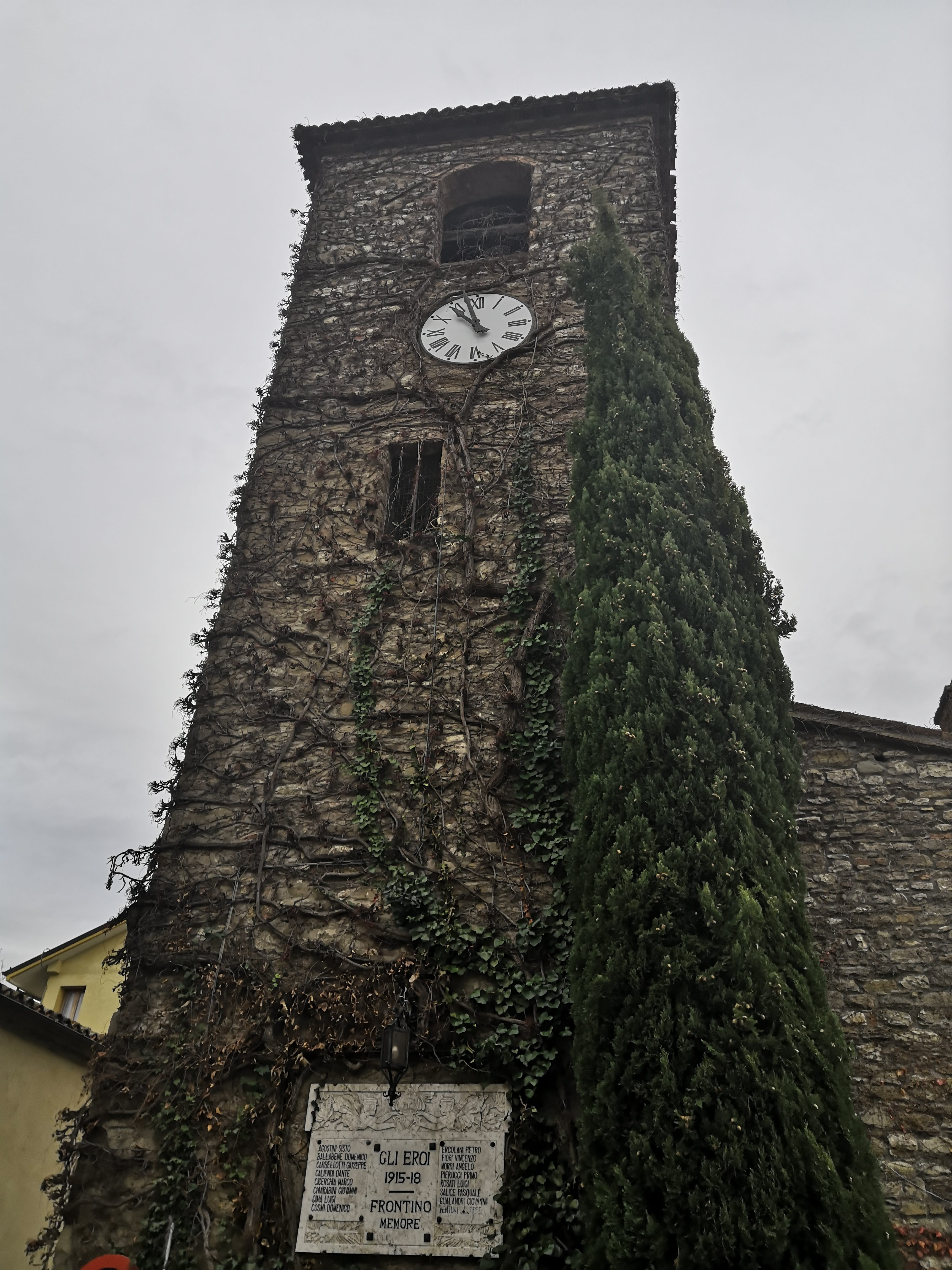 Civic tower of Frontino, Italy